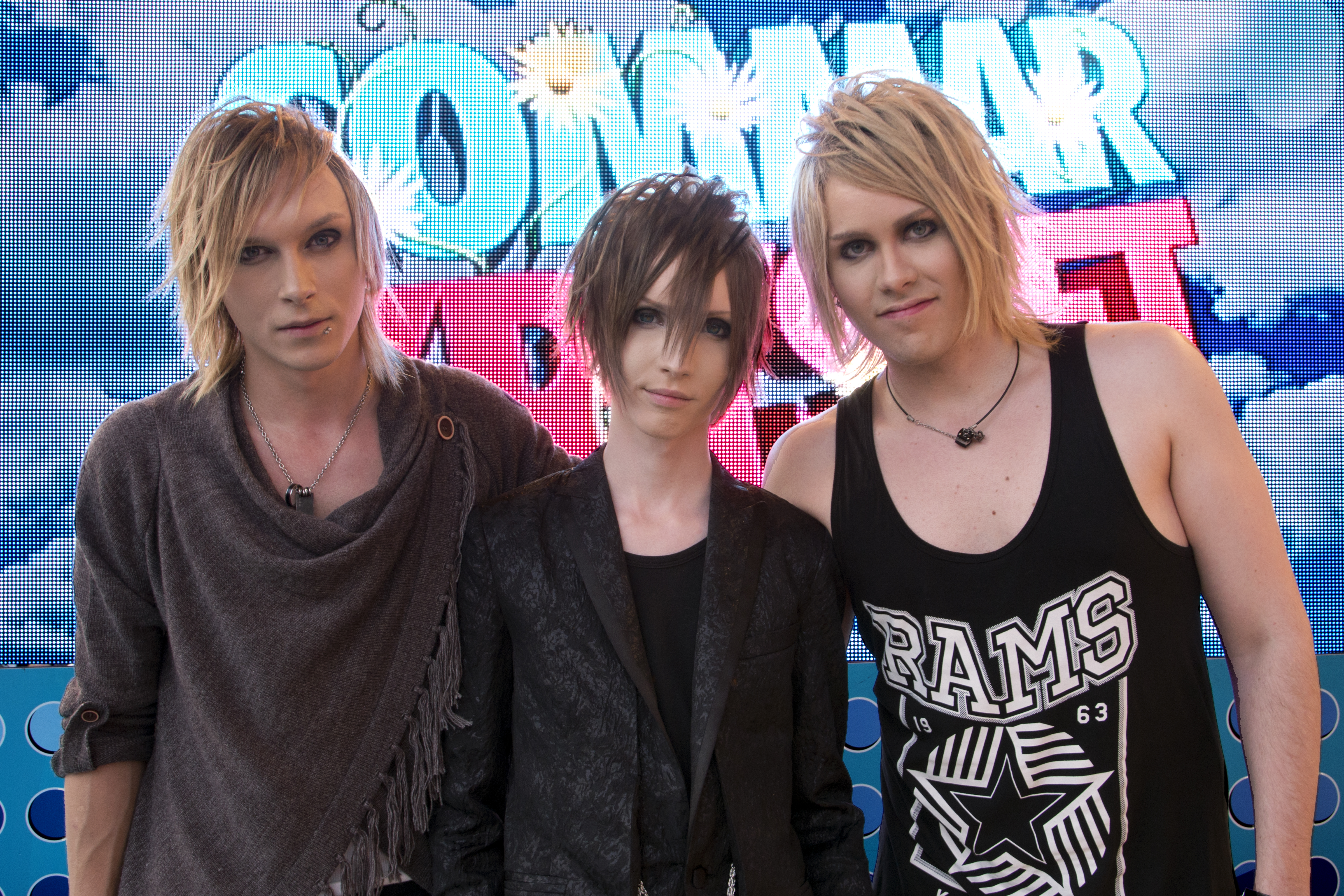 Yohio at Sommarkrysset in Sweden, Stockholm, Gröna Lund 2014